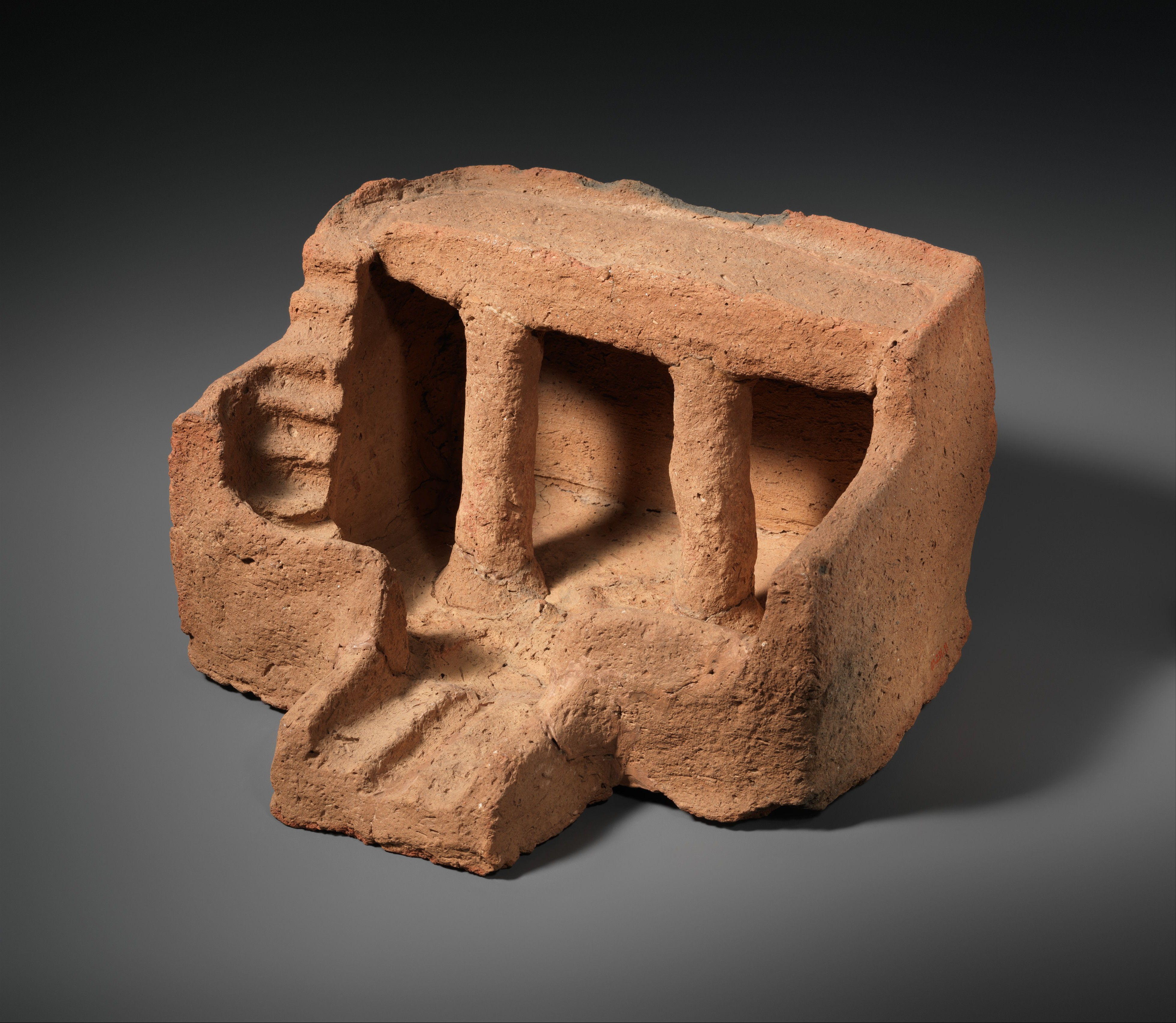 Model house